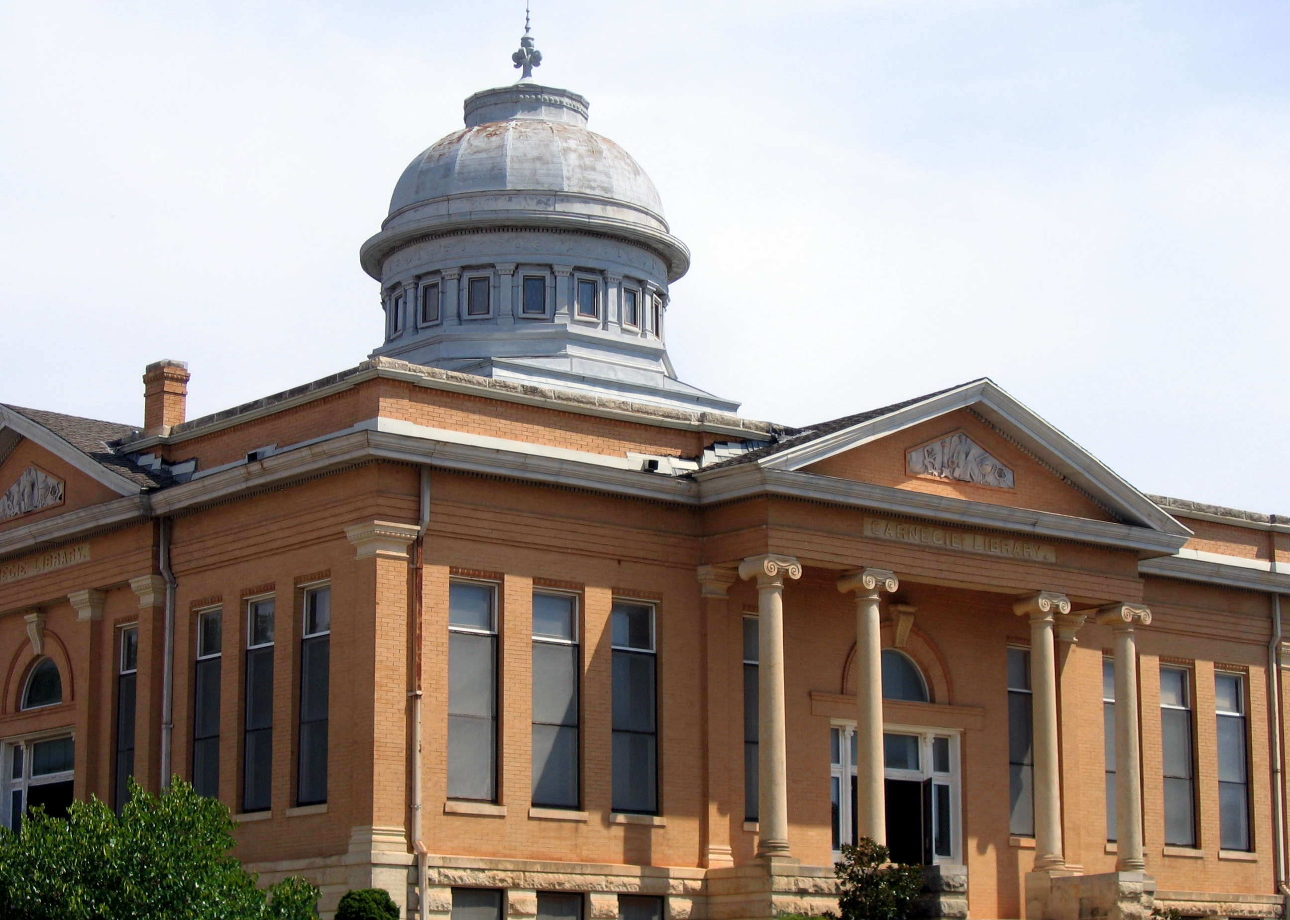 Old Carnegie Library, part of the Oklahoma Territorial Museum (Photo by R. L. Robinette, taken on August 23, 2006)